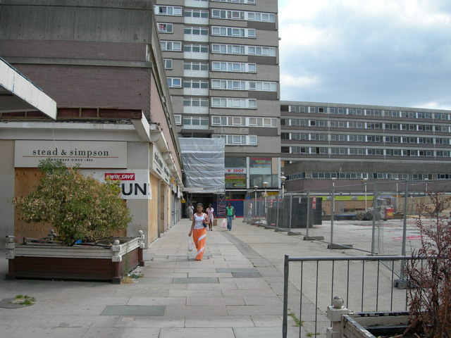 Central Square, Wembley. Currently being redeveloped. It was a 1960s concrete creation which has not stood the test of time.